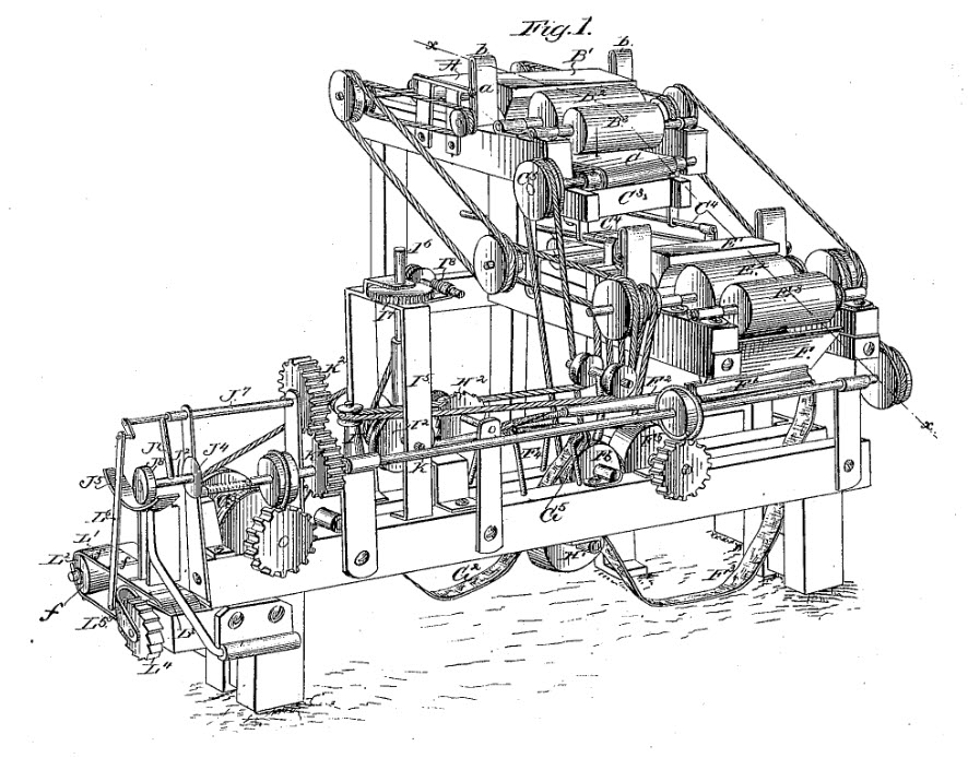 Cigarette Rolling Machine